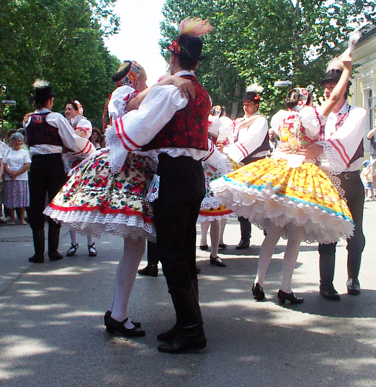 Voivodina Hungarians (Kupusina and Doroslovo) national costume and dance.